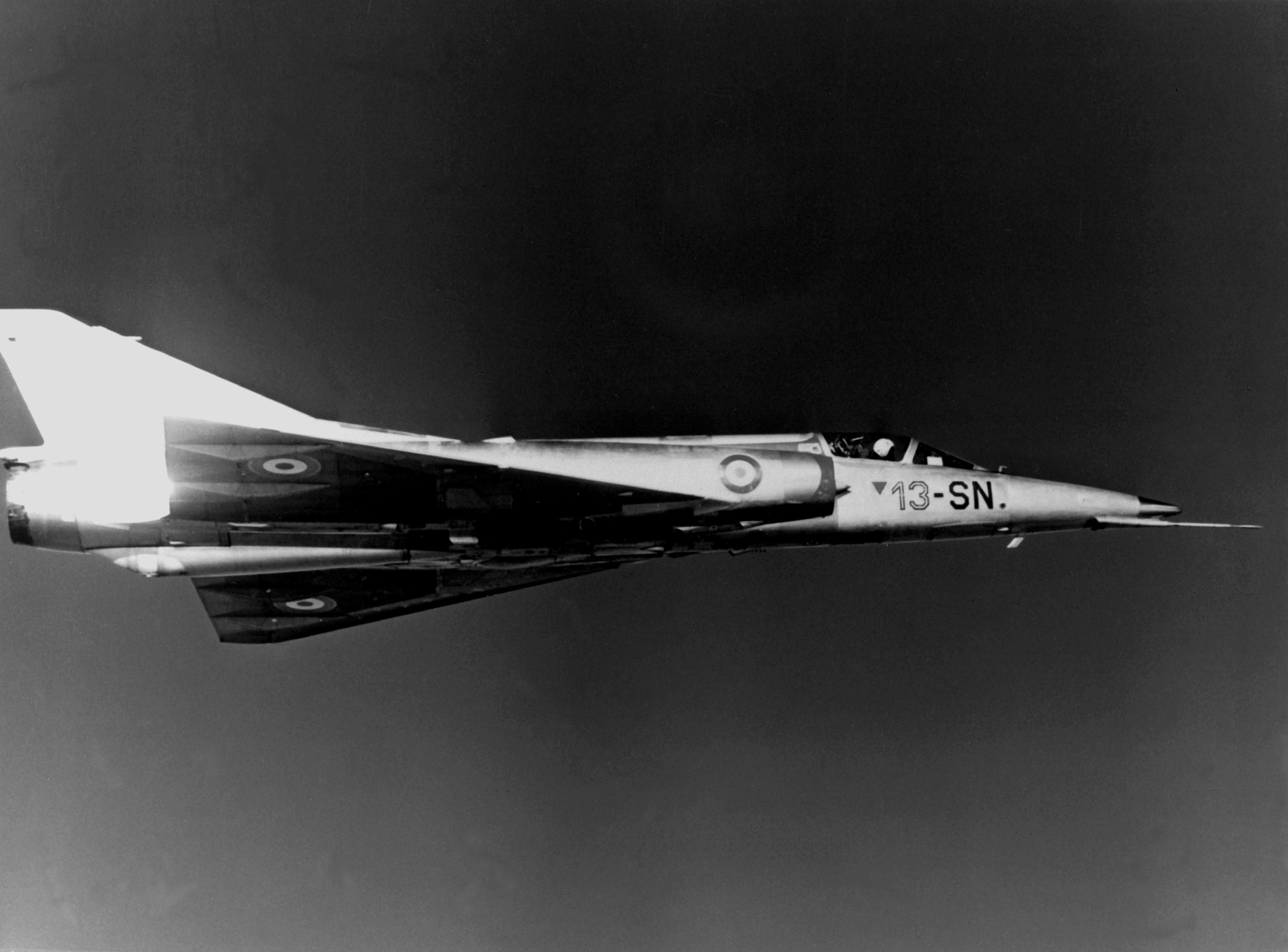 A French Armee de l'Air Mirage 5 from Escadron de chasse 3/13 "Auvergne" (13-SN) based at Base aérienne 132 Colmar-Meyenheim, department of Haut-Rhin, France. EC 3/13 was formed in 1972 at Colmar and equipped with Mirage 5s originally built for Israel. It was a "Wild Weasel" unit that flew the Mirage 5F until 1992.